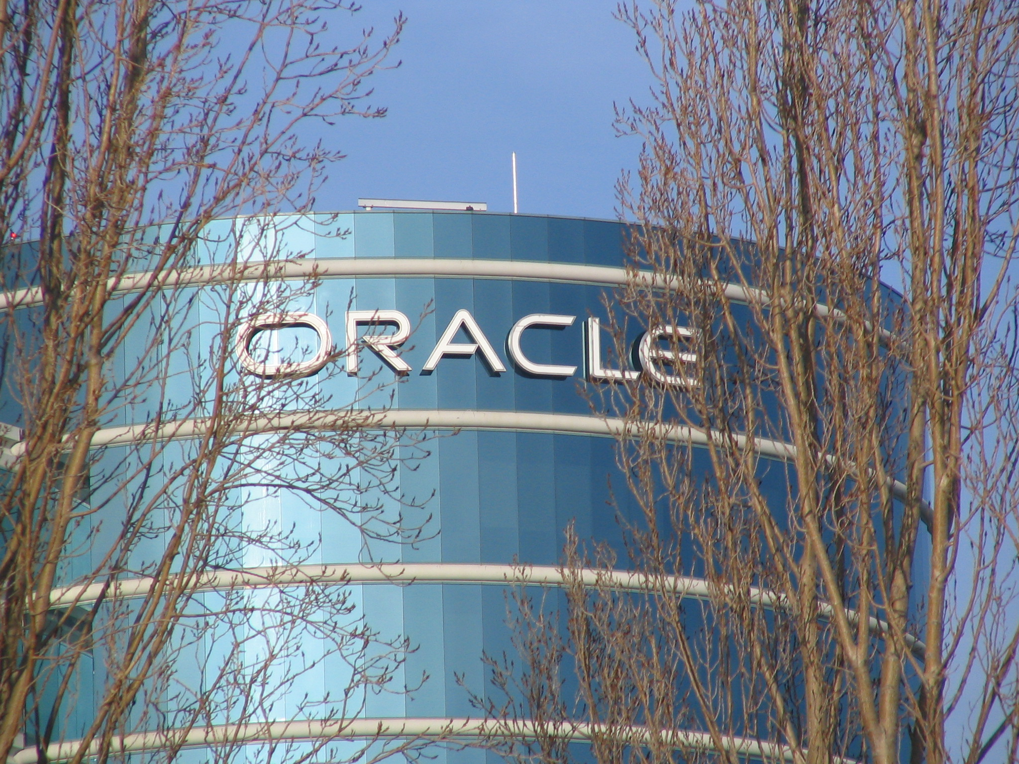 Oracle logo at the Oracle headquarters.